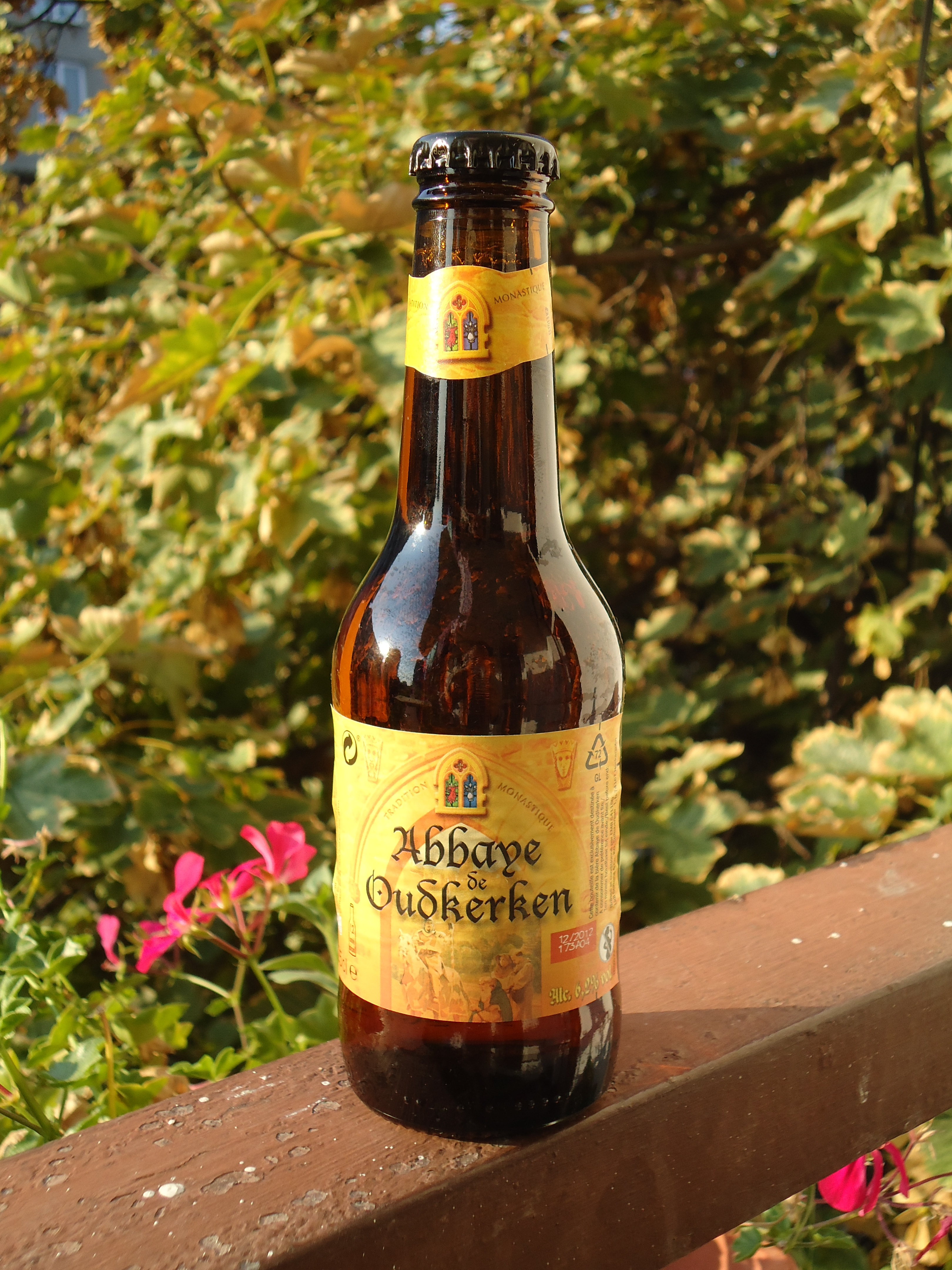 Abbaye de Oudkerken beer